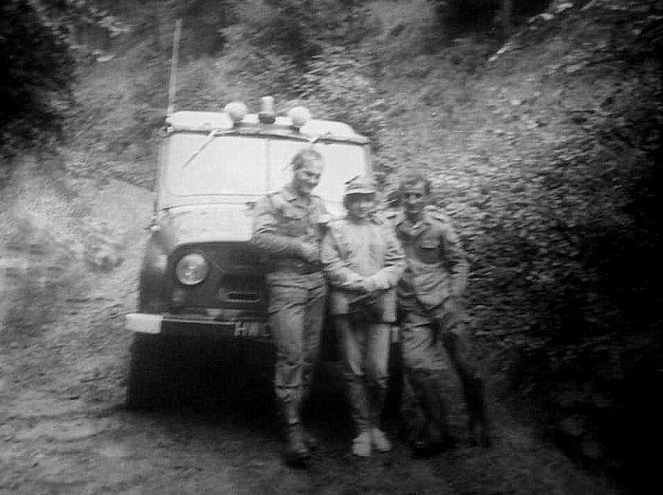 WOP post in Zawoja